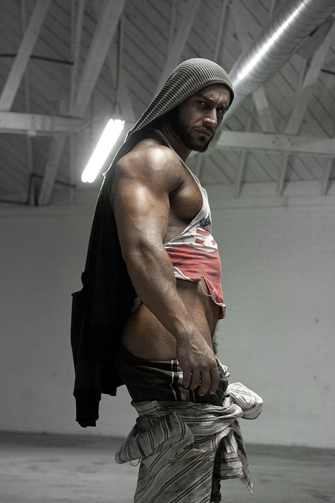 francois-sagat--wharehouse-in-Blab-LA-ZOMBIE-by-ARNO-ROCA